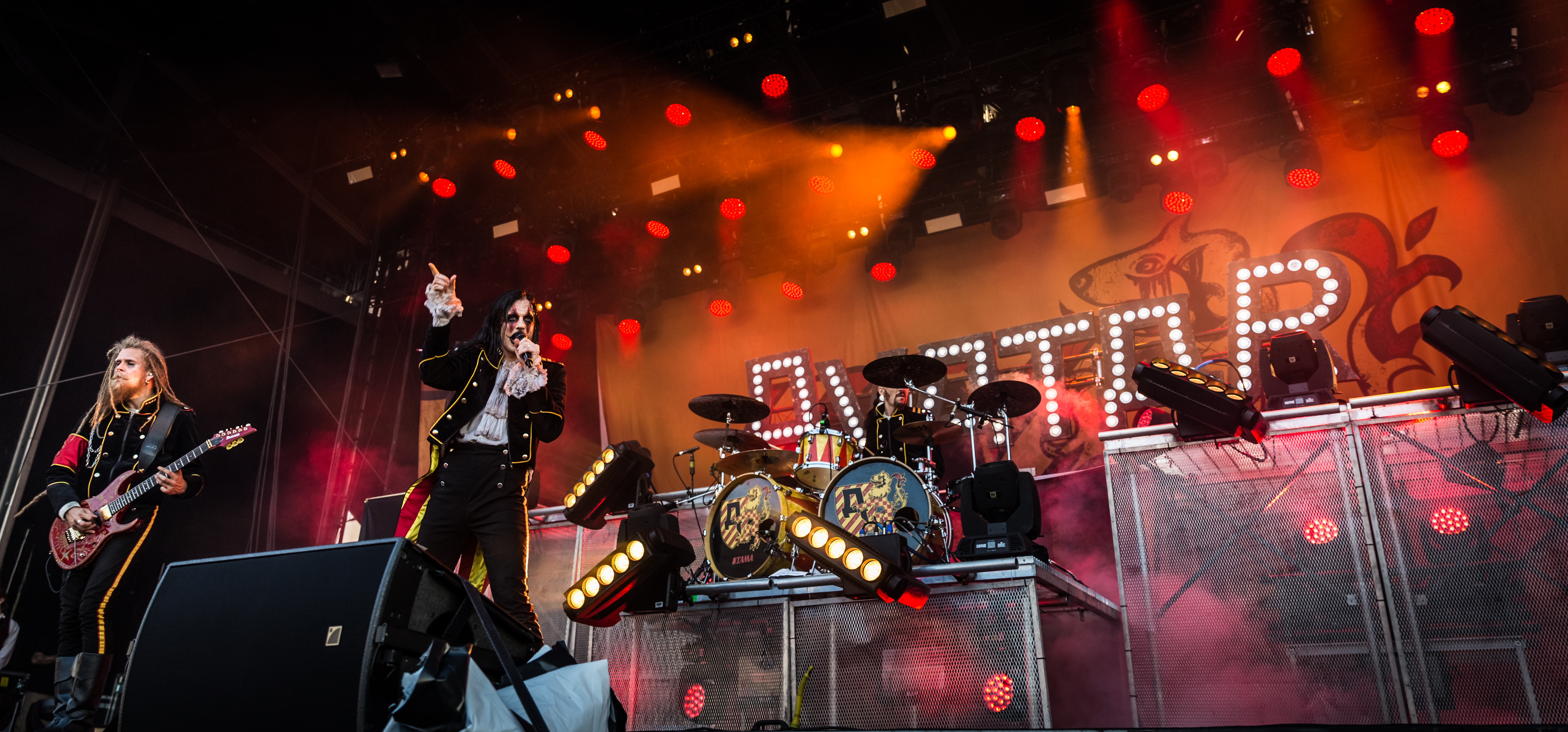 Avatar - Rock am Ring 2018